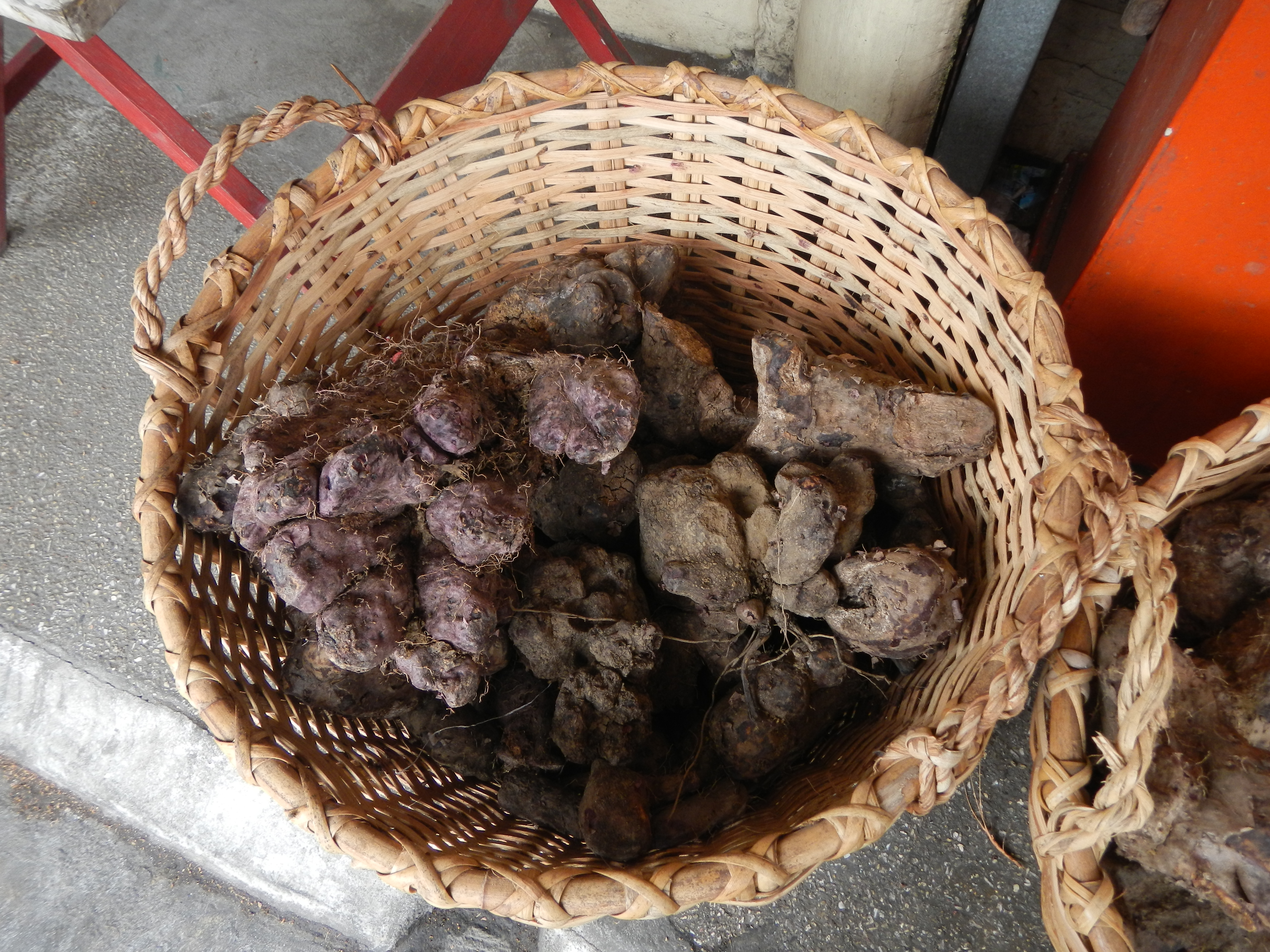 Dioscorea alatae free encyclopedia( Purple yam)[1]